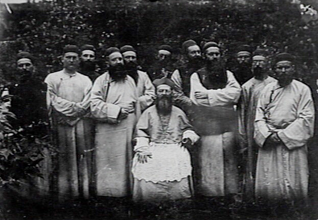 Bishop Rutjes with CICM Missionaries in Mongolia.